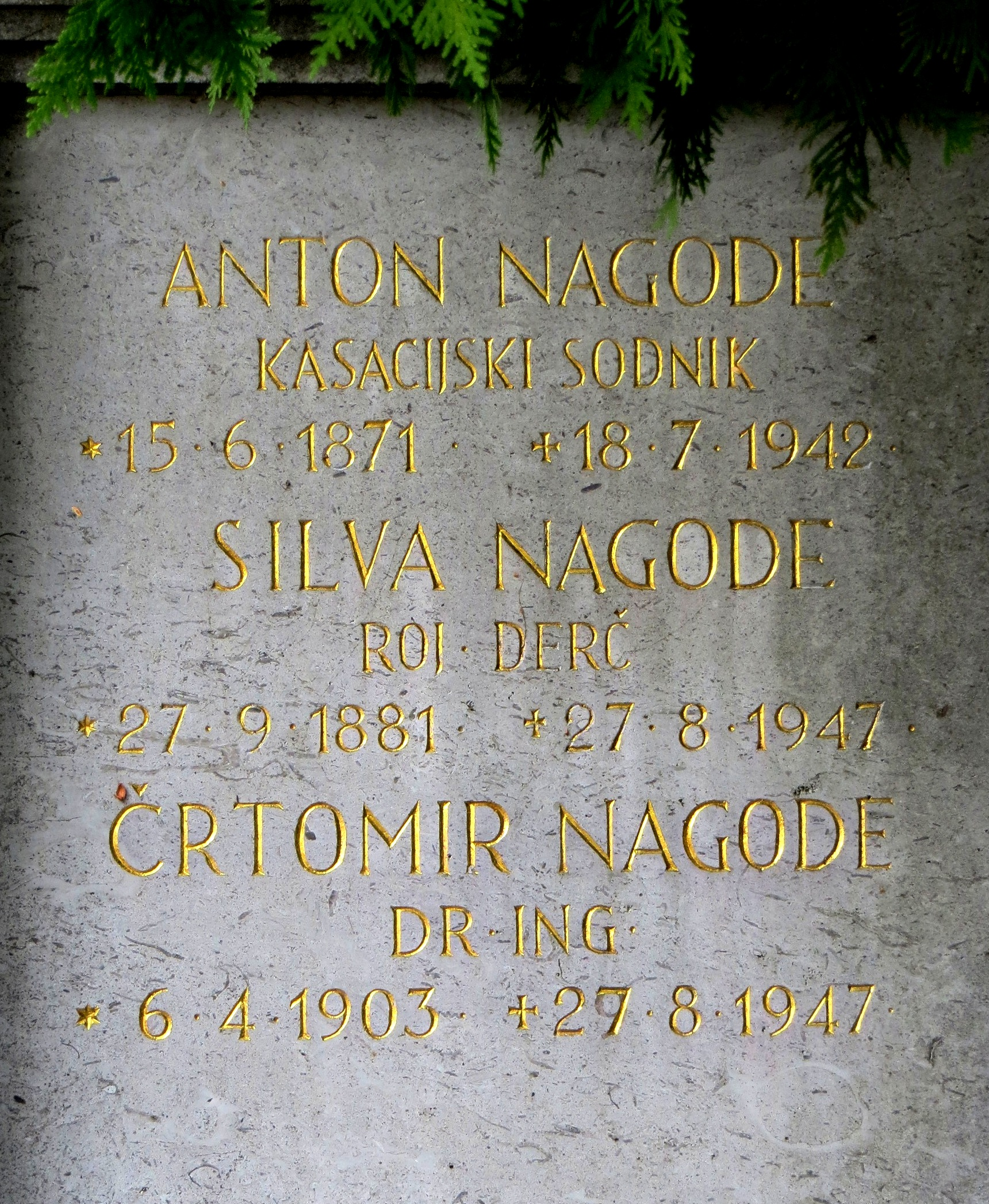 Detail of the Nagode family gravestone in Žale Cemetery, Ljubljana, Slovenia